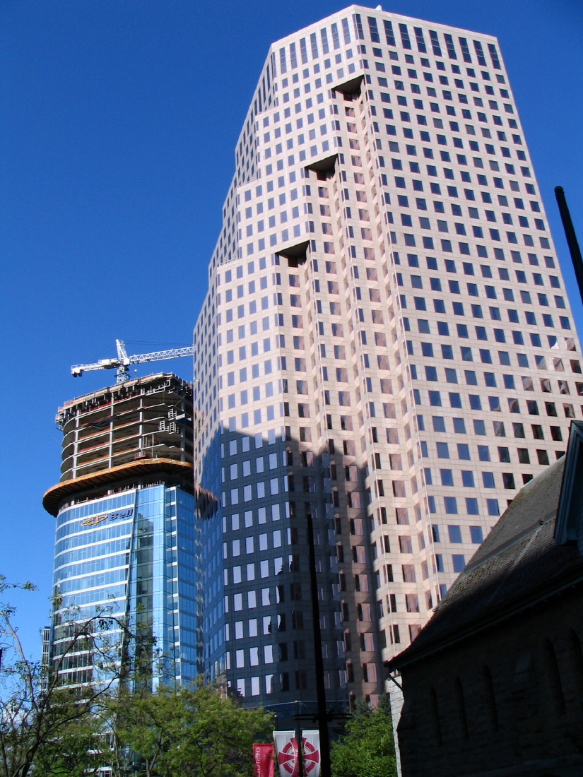 This image was created by me, Flying Penguin of Pacific Spirit Photography of Burnaby, British Columbia, Canada.